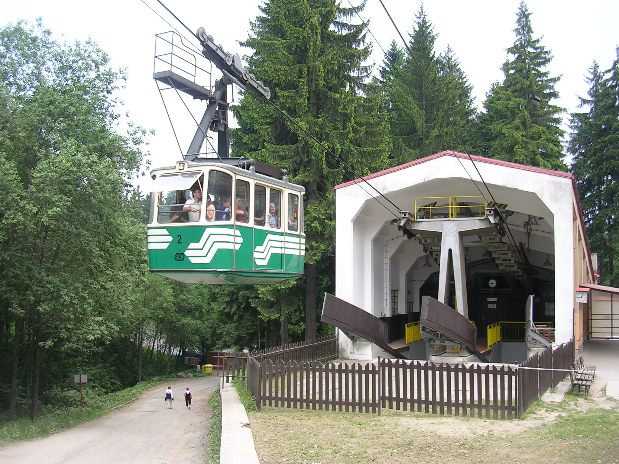 Ještěd cable car.